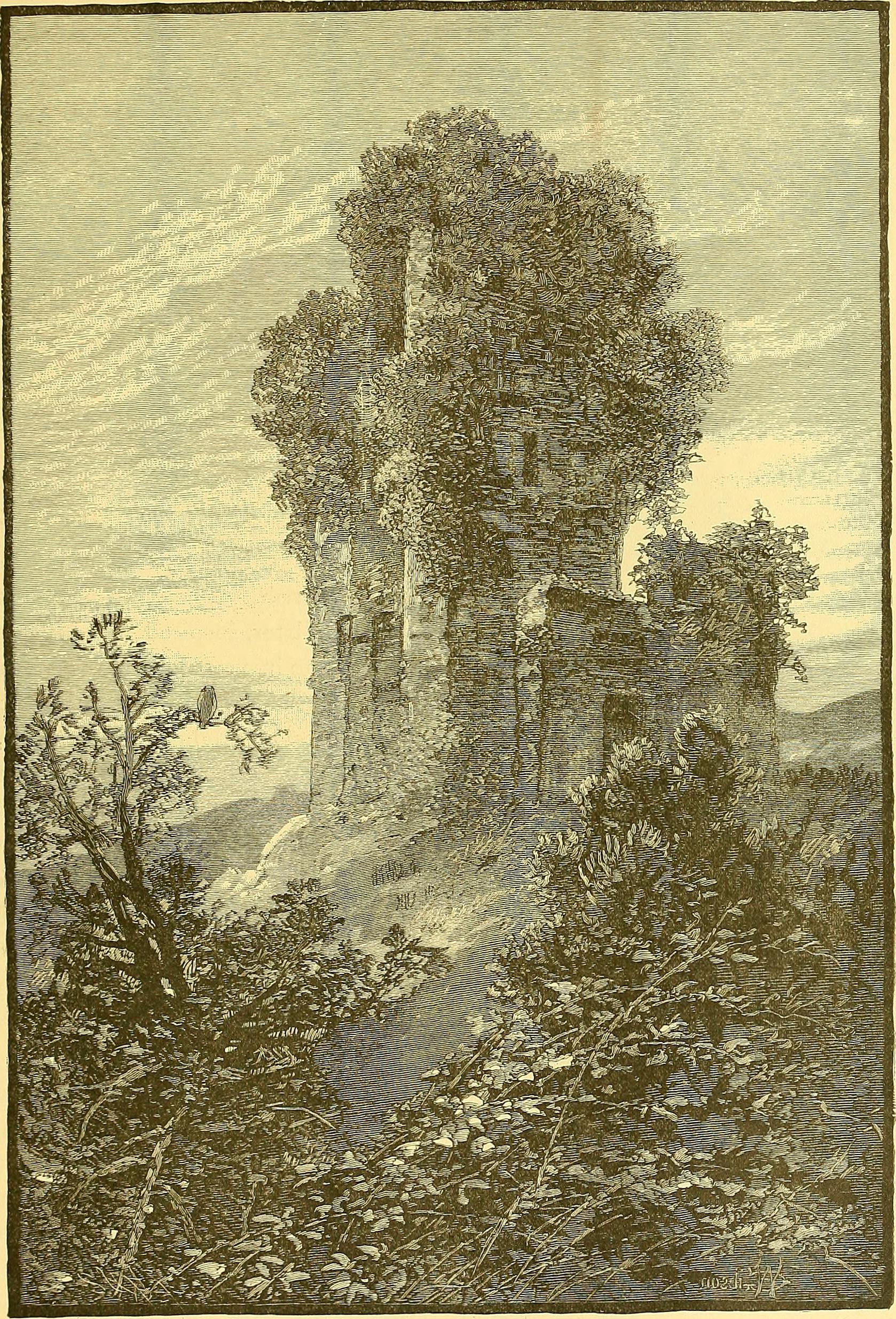 Title: Picturesque Ireland : a literary and artistic delineation of the natural scenery, remarkable places, historical antiquities, public buildings, ancient abbeys, towers, castles, and other romantic and attractive features of Ireland Year: 1885 (1880s) Authors: Savage, John, 1828-1888, ed Subjects: Publisher: New York, T. Kelly Text Appearing Before Image: Mallow Castle. office in the Court of Chancery until June, 1588, when he was appointed Clerkof the Council of Munster. He received a grant of Kilcolman and other lands,amounting to 3,028 acres of Desmonds confiscated estates ; and was marriedin Cork, in 1594, to an Irish girl named Elizabeth, of whose family and stationwe know nothing; but of whose personal charms we have devoted descriptions,*as of the inward beauty of her spirit, where dwelt—■ * See. The Faerie Queene, Book VI., Canto X. : the sonnets entitled ..//«ore///, and the Jlarriage Song Epitha~laniion. Text Appearing After Image: KH-COLMAN CASTLE. 458 PICTURESQUE IRELAND. Sweet Love, and constant Chastity, Unspotted Fayth and comely womanhood,Regard of Honor, and Mild Modesty. At Kilcolman, which stood in a most pleasant and romantic situation on thebanks of a fine lake, Spenser received his friend Raleigh, and the gifted under-takers of English colonization on Irish soil that did not belong to them, con-gratulated each other on a future of fortune. Raleigh found his in the vindic-tive meanness of his sovereign, which sent him to the scaffold. Spensers worldly-success was equally short lived. One of the plunderers who profited by thespoil of the Geraldine, and whose sweet poetry has earned for him a fame for_ _ gentleness his political writings scarcely merit, _ he has, in terse and picturesque language, chronicled the horrors which made his for-tune. He was a victim of similar retaliatoryhorrors. He was the advocate of unsparingforce against the Irish. When the success ofHugh ONeil, in Ulster, inspired the Mu